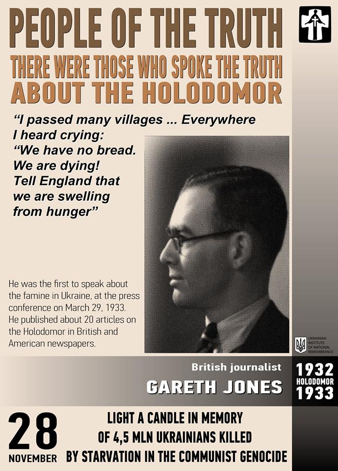 People of truth. There were those who spoke the truth about Holodomor. For the world to know.